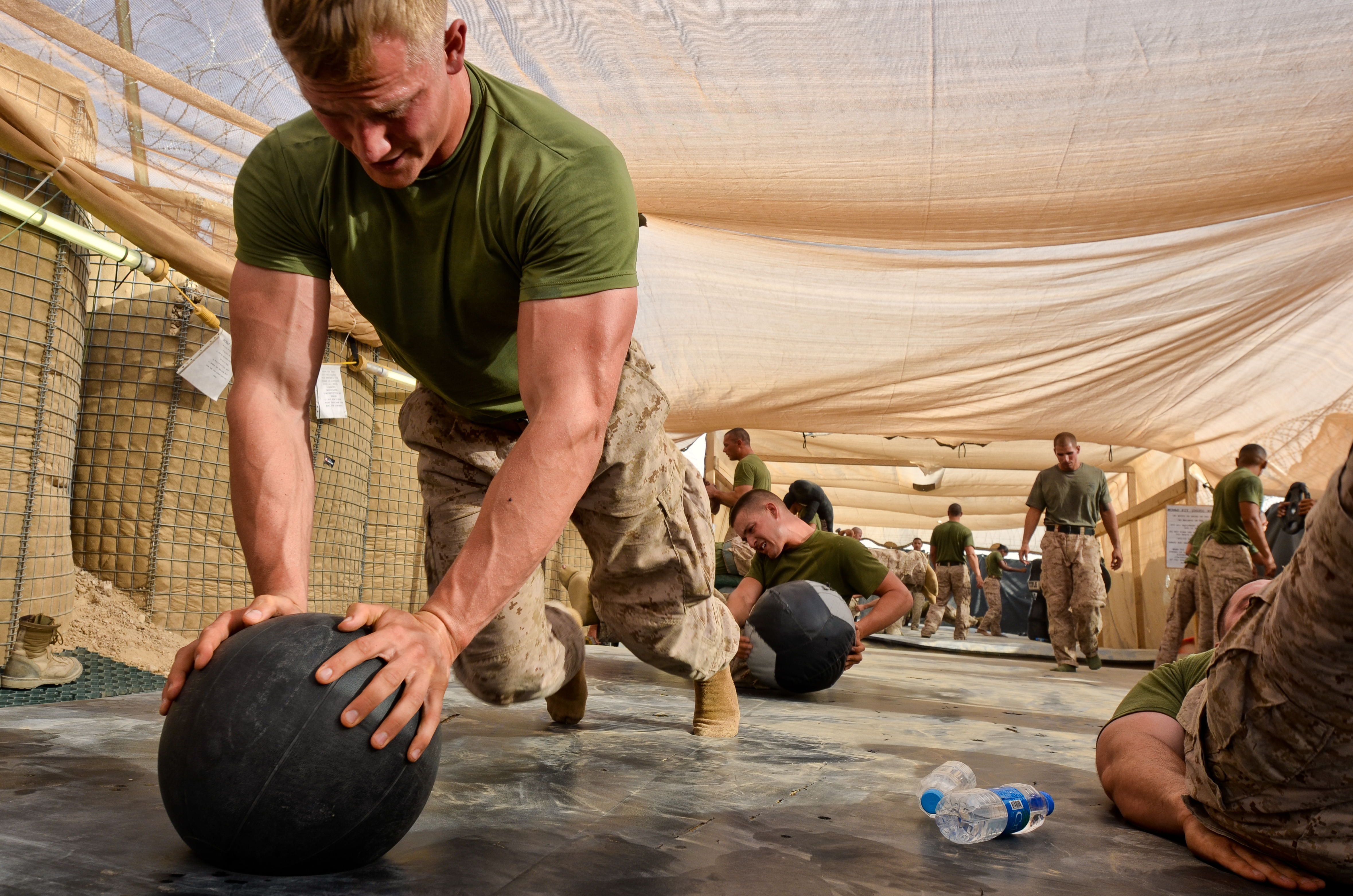 Cpl. Joshua K. Naylor, watch chief, Headquarters and Service Company, Combat Logistics Battalion 4, 1st Marine Logistics Group (Forward), conducts medicine ball pushups here, July 14, during a circuit course. The course was designed to challenge the Marines mentally and physically.